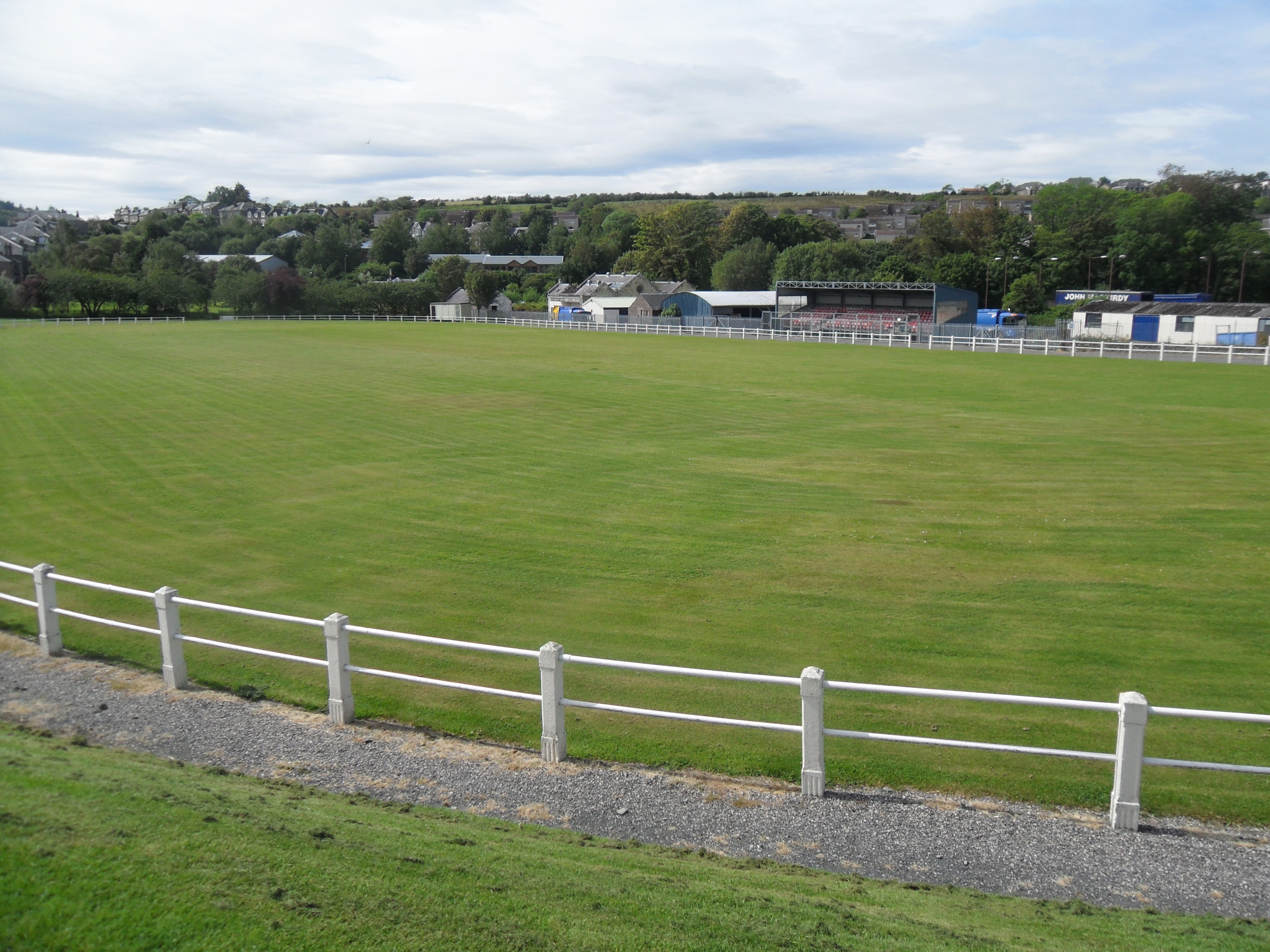 The Stadium, High Street, Rothesay, Isle of Bute, Scotland.